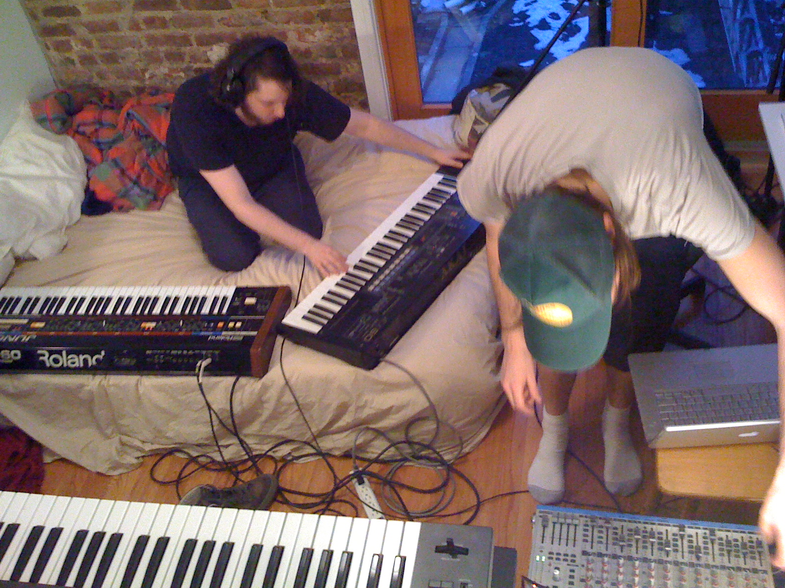 too many synths Akai AX60 Roland Juno-60 Roland JX-8P